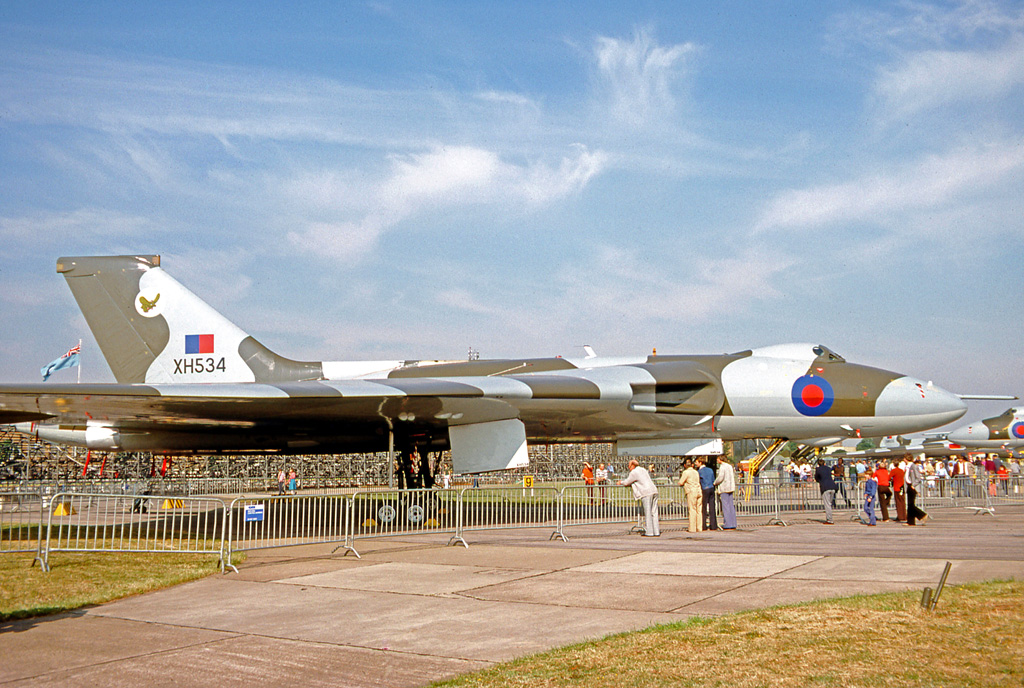 Avro Vulcan SR.2 XH534 of No. 27 Squadron RAF at RAF Finningley in 1977